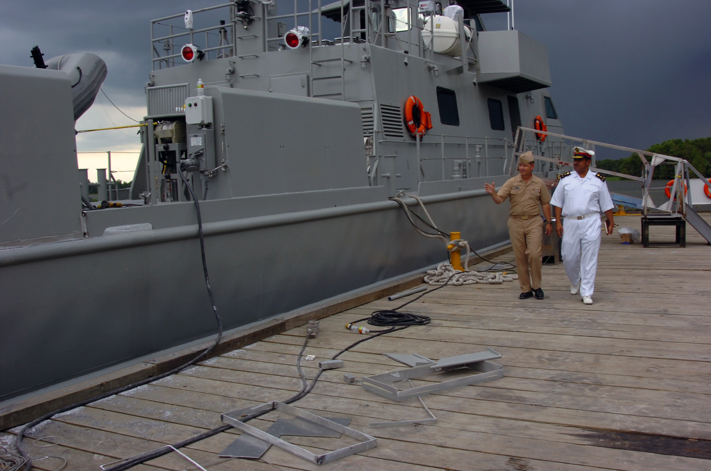 MORGAN CITY, La. (June 16, 2010) Rear Adm. Jeffery "Scott" Jones, director of the Coalition Naval Advisory Transition Team Mission, left, and Commodore Muneer Saddam, from the Iraqi navy, walk alongside the 35-Meter patrol boat that Iraqi sailors are being trained to operate and maintain. The Iraqi navy will take possession of the boat in late summer 2010. The training is being coordinated through Naval Education and Training Security Assistance Field Activity, Naval Air Warfare Center Training Systems Division, Naval Sea Systems Command, and Swiftships Shipbuilding. (U.S. Navy photo by Steve Vanderwerff/Released)